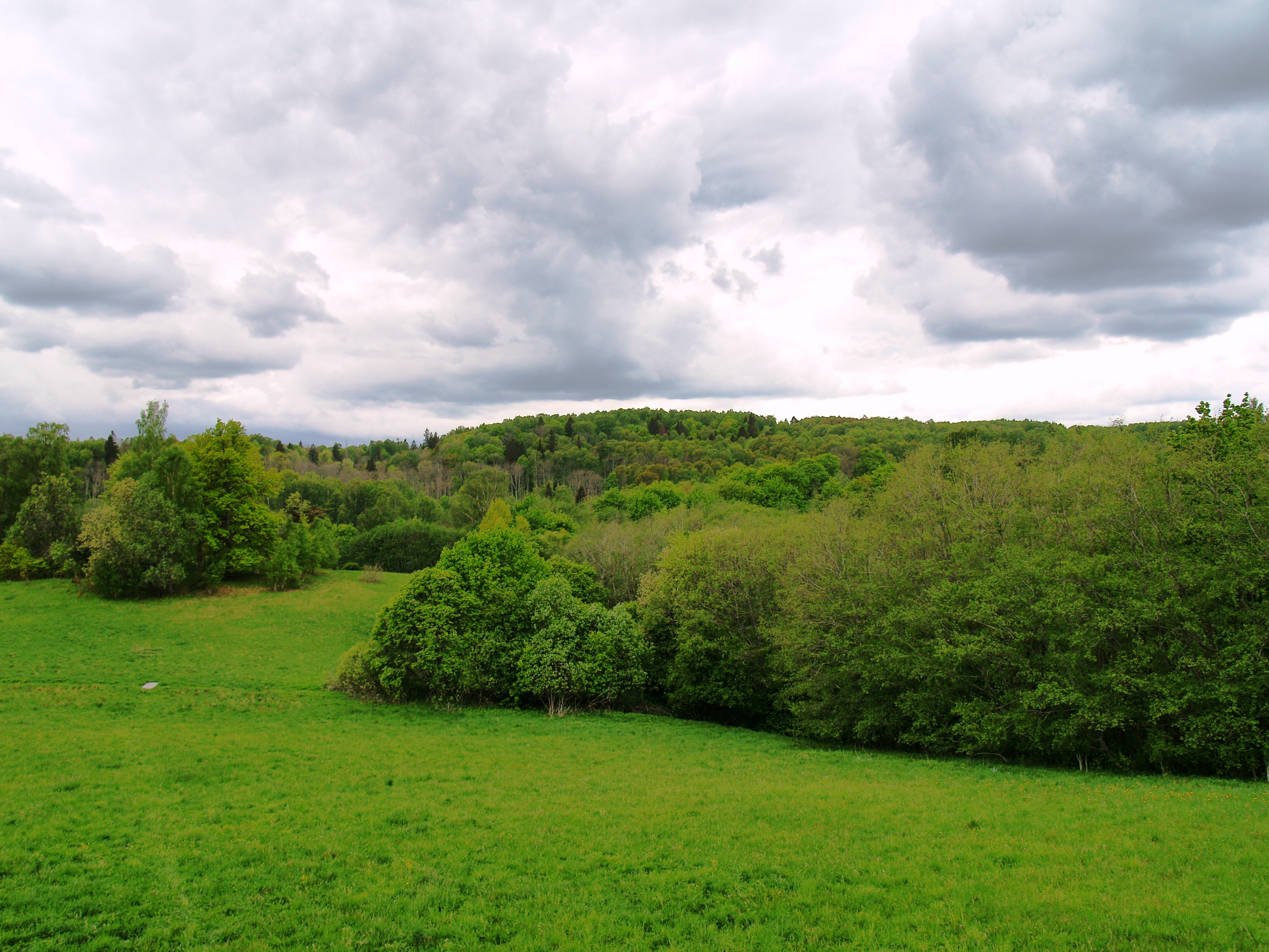 Embūtes dabas parks (Embute Country Park)